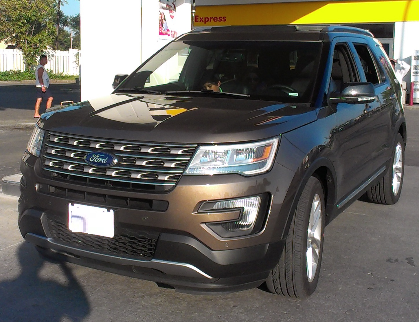 2016 Ford Explorer photographed in Montreal, Quebec, Canada.